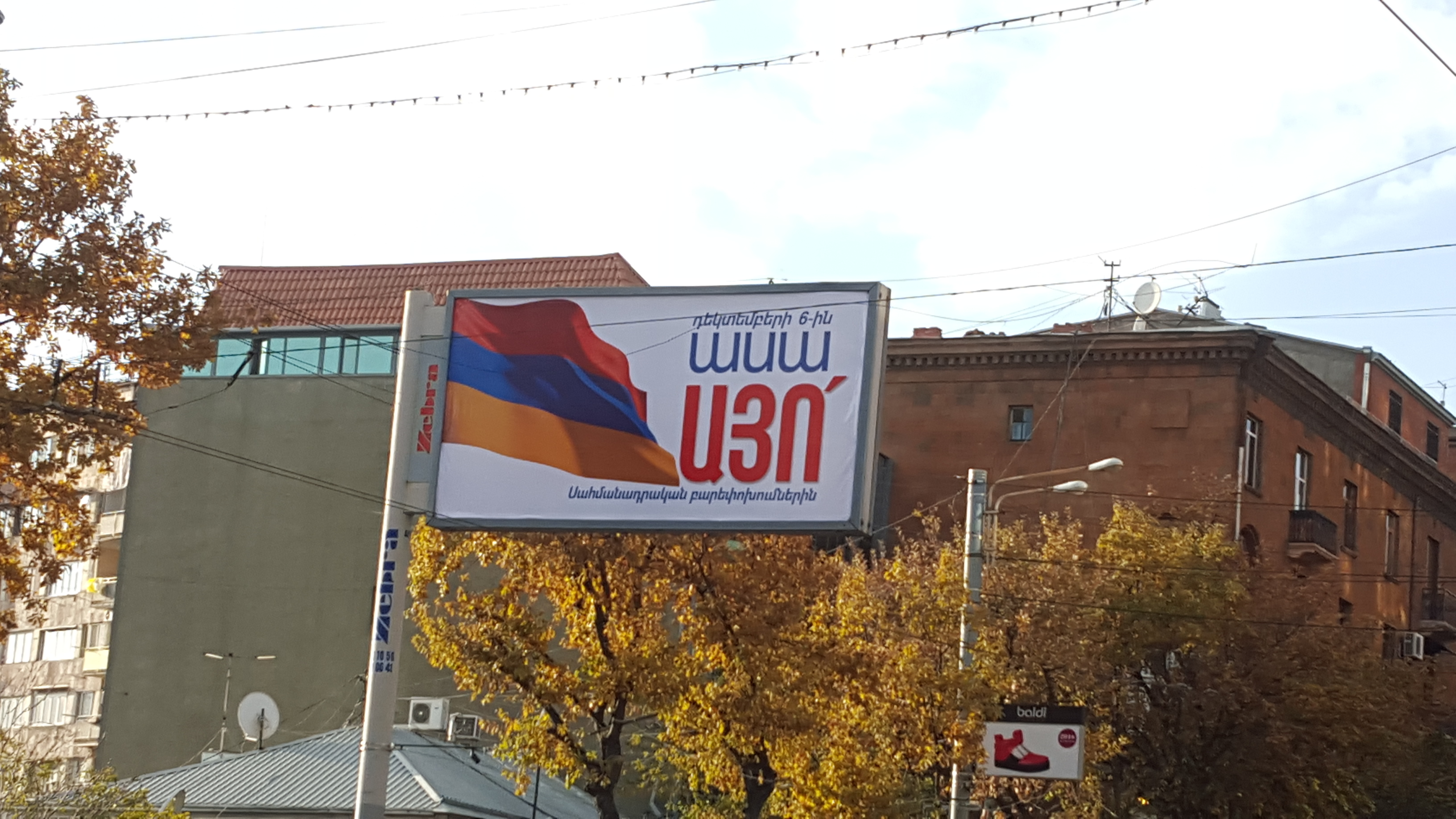 Armenian constitutional referendum, 2015